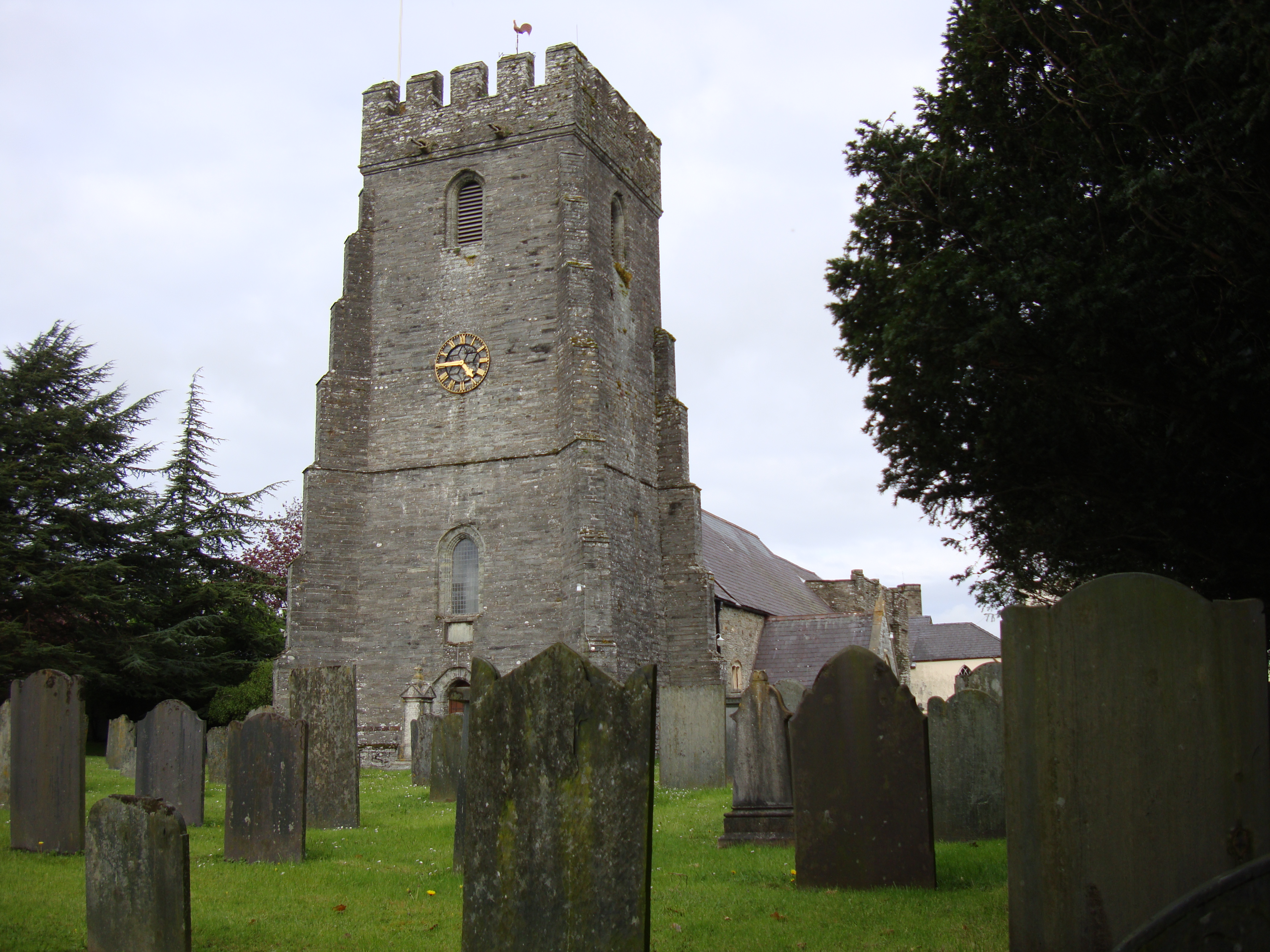 Photograph of the Parish Church of St Mary, Cardigan, Ceredigion, Wales